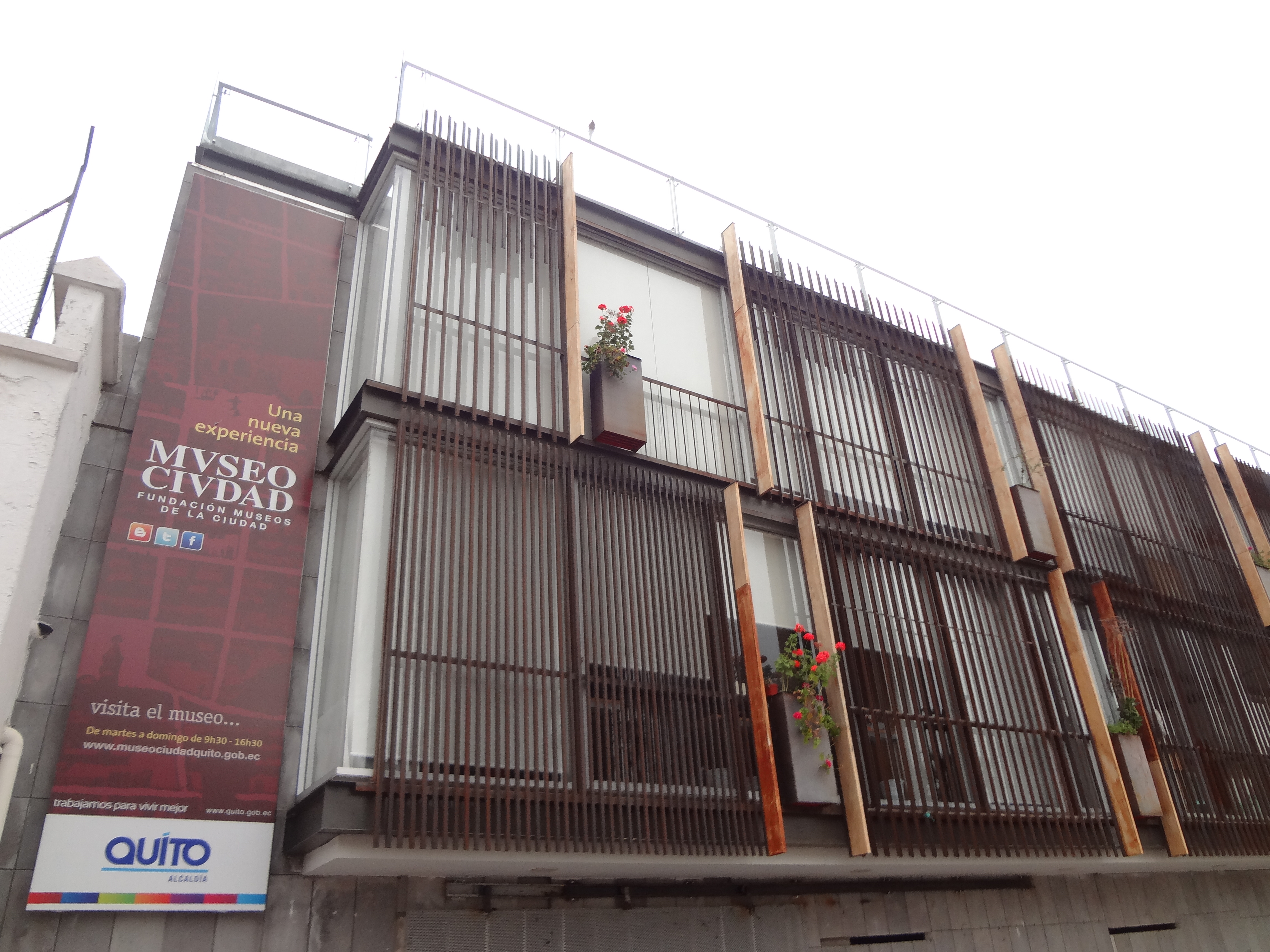 Centro Histórico de Quito (Museo de la Ciudad) Photography by David Adam Kess